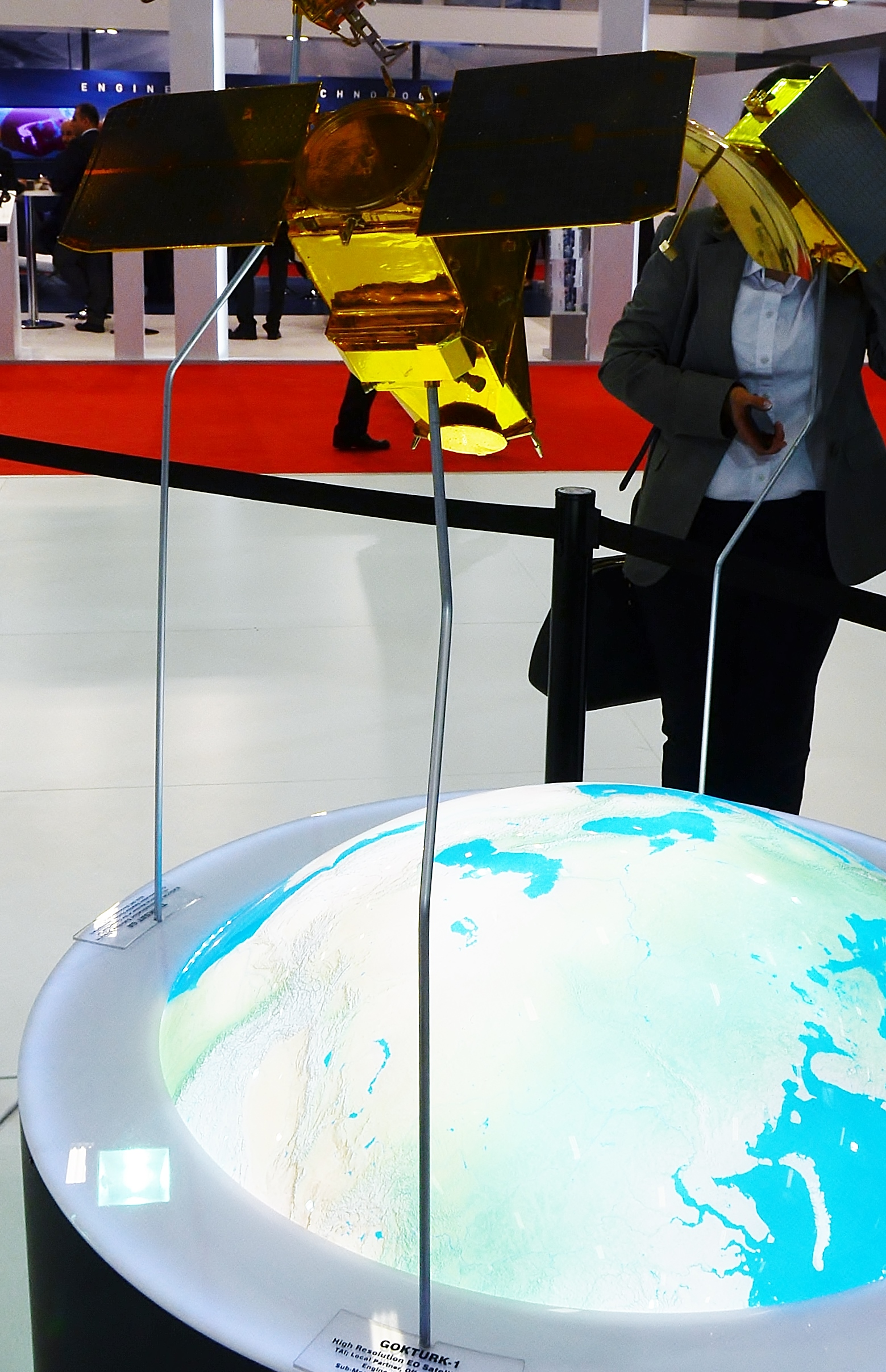 High resolution earth observation satellite Göktürk-1 satellite (model) of Turkish Aerospace Industries at IDEF 2015